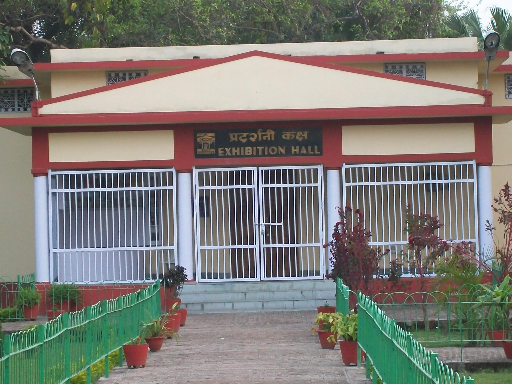 kumhrar